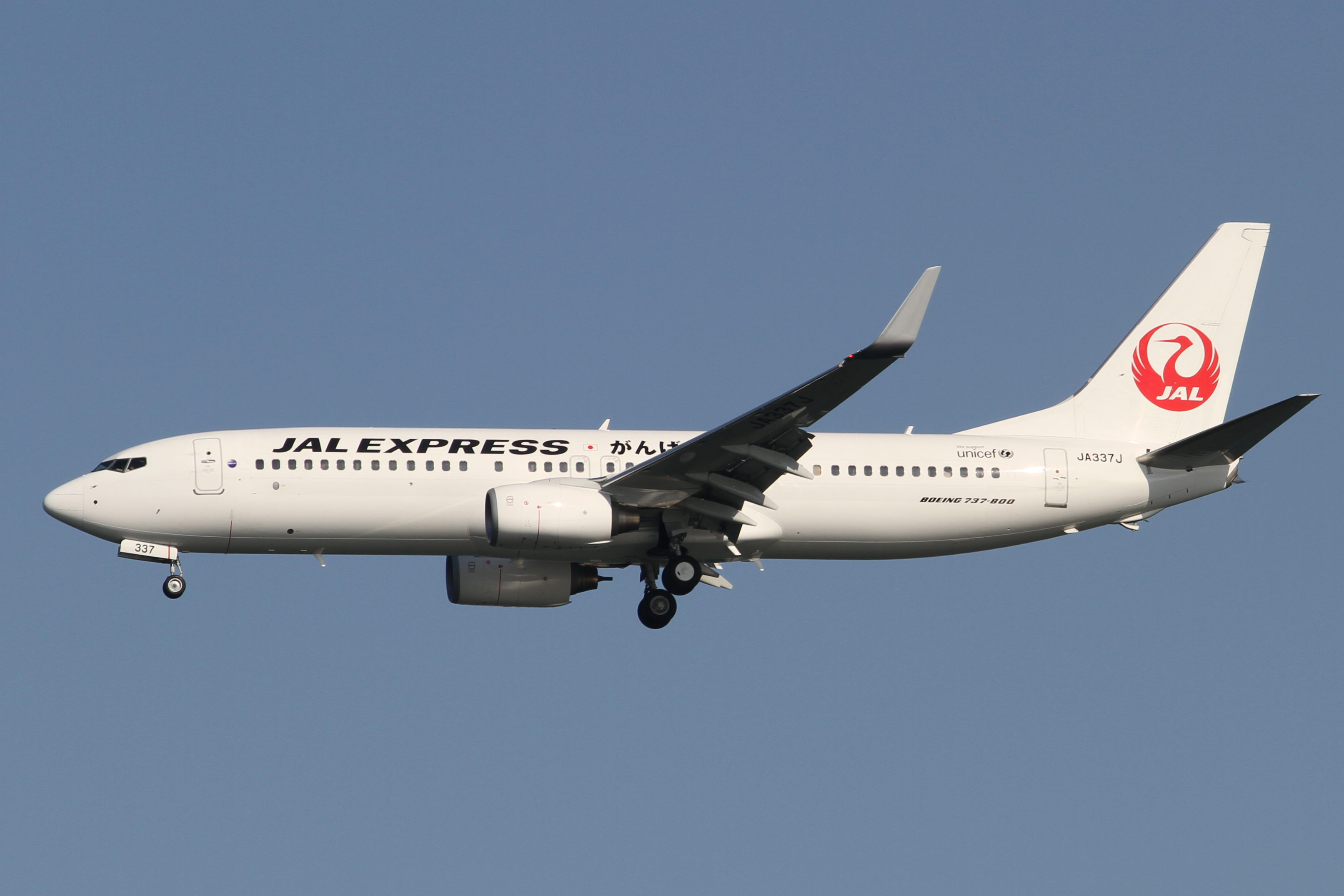 Tokyo International Airport, Boeing 737-846, c/n:40352, Japan Airlines